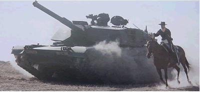 107th ACR Past and present picture (Horse Soldier rides with Tank Crew)